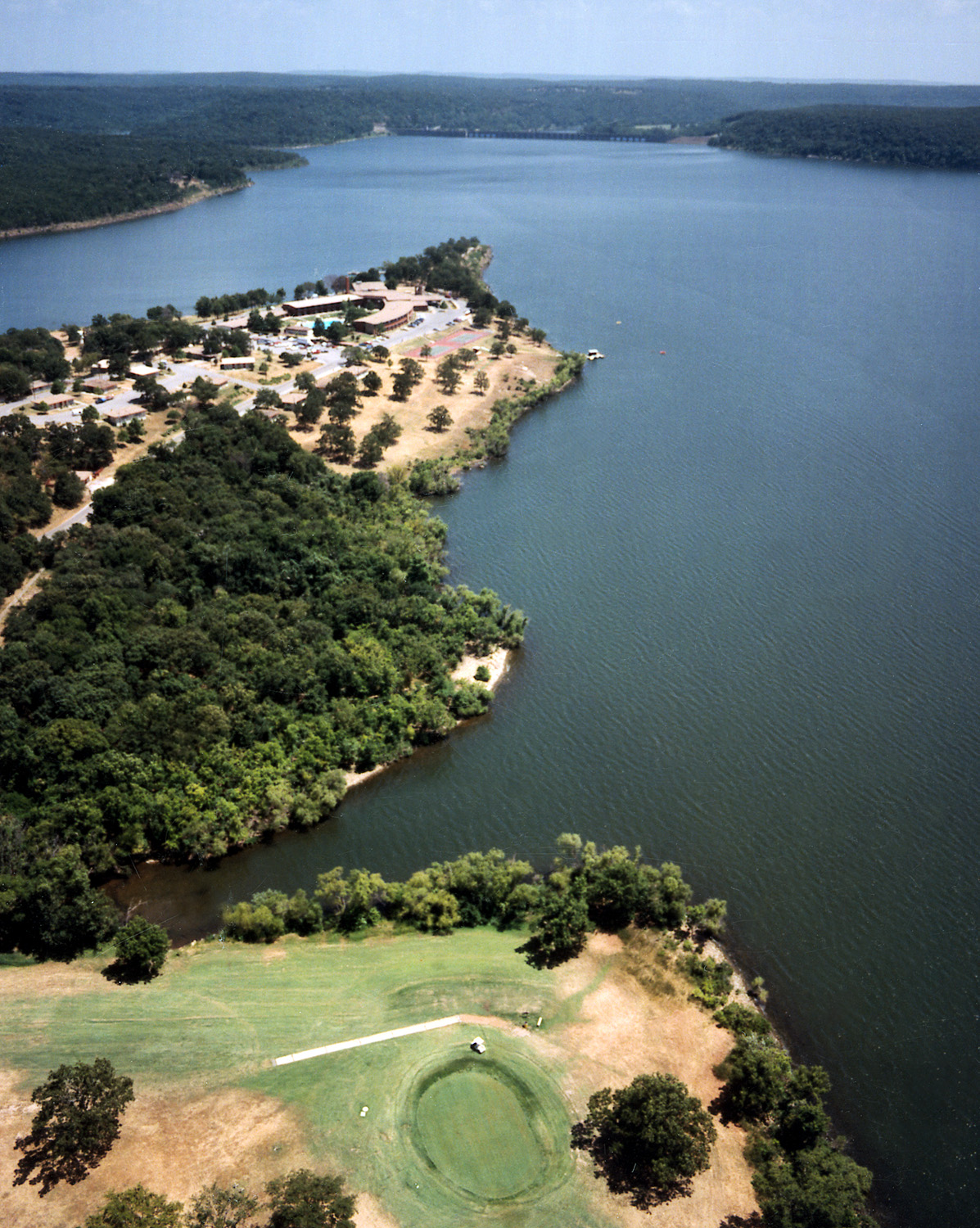 Aerial view of Fort Gibson Reservoir on the Grand River (known as the Neosho River farther upstream) in the U.S. state of Oklahoma. The lake is located in Cherokee and Wagoner Counties and forms part of the border between the two counties. The lake is located approximately 48 miles (78 km) southeast of the city of Tulsa. This photograph shows a part of Sequoyah State Park on the reservoir. The U.S. Army Corps of Engineers constructed the dam for flood control and water supply. Note that the source photograph on the U.S. Army Corps of Engineers website has mislabelled this photograph as Lake Eufaula. Coordinates: 35°53′21.58″N 95°14′29.28″W / 35.8893278°N 95.2414667°W